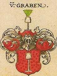 Cooat of arms Von Graben